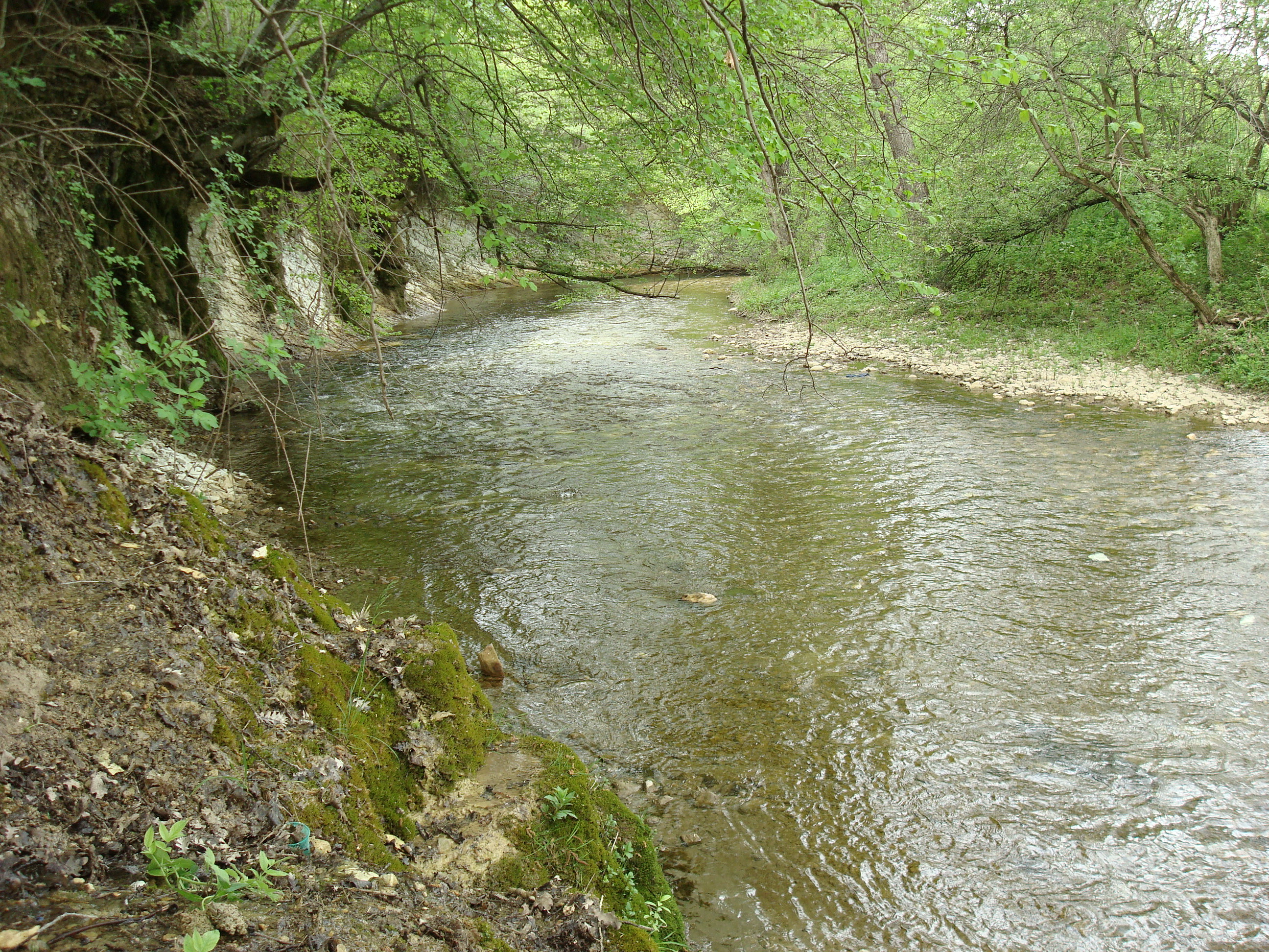 Belbek river, Bakhchisaray Raion, Crimea